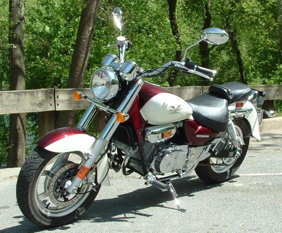 Hyosung GV250 Aquila (Alphasport model shown). a.k.a. as the Mirage in some countries. Image courtesy of Bill Ramby.